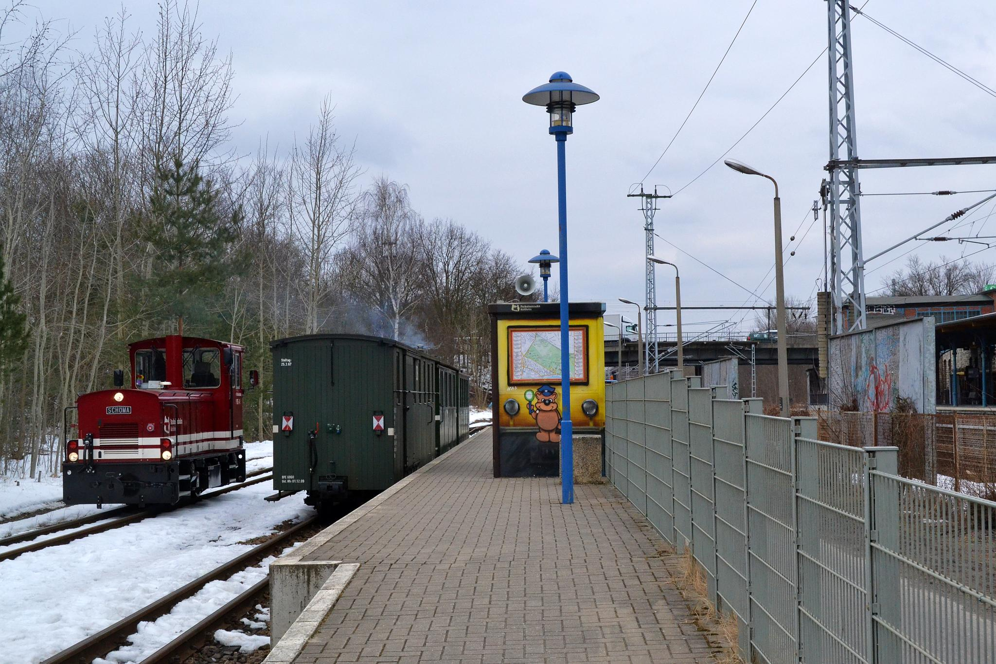 Schoema locomotive 199 105-8 at station Wuhlheide Parkeisenbahn